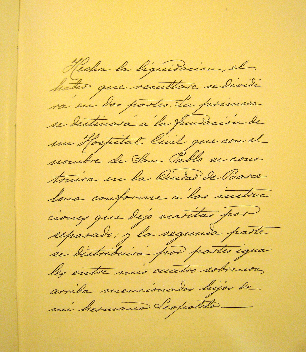 Will of Pau Gil (1816-1896).